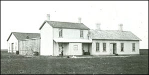 First Government House shortly after construction in 1883 from material sent by train from Ontario